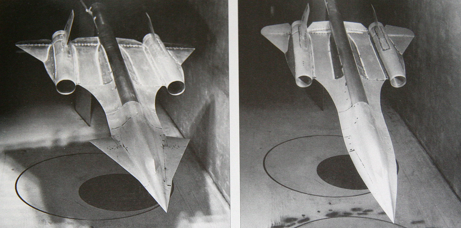 Lockheed A-12 (SR 71 Blackbird predecessor) wind-tunnel test models at NASA Langley, showing an interesting canard configuration as well as the more familiar configuration that was ultimately used.